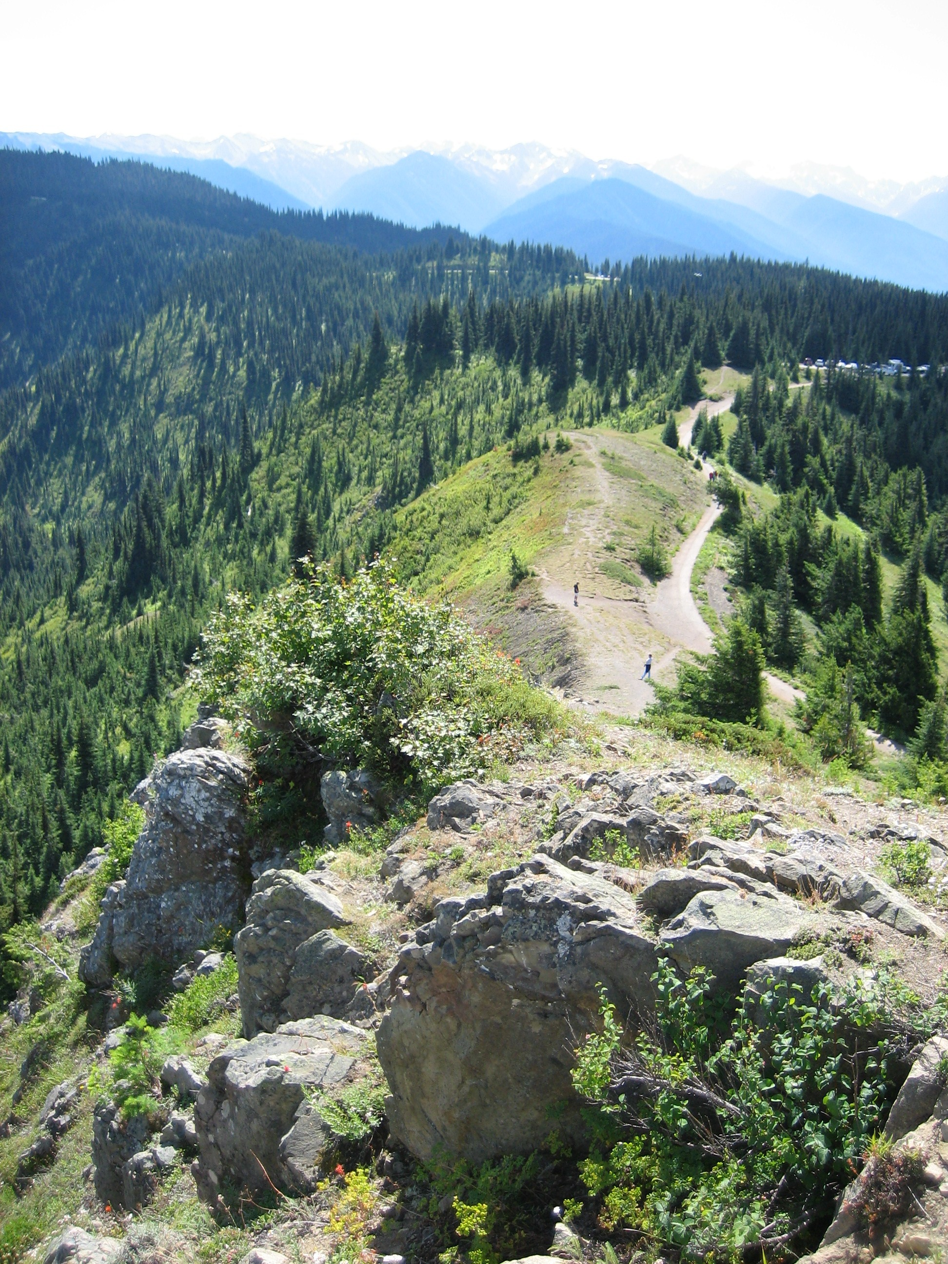 The Hurricane Ridge trail in Olympic National Park, Washington State.